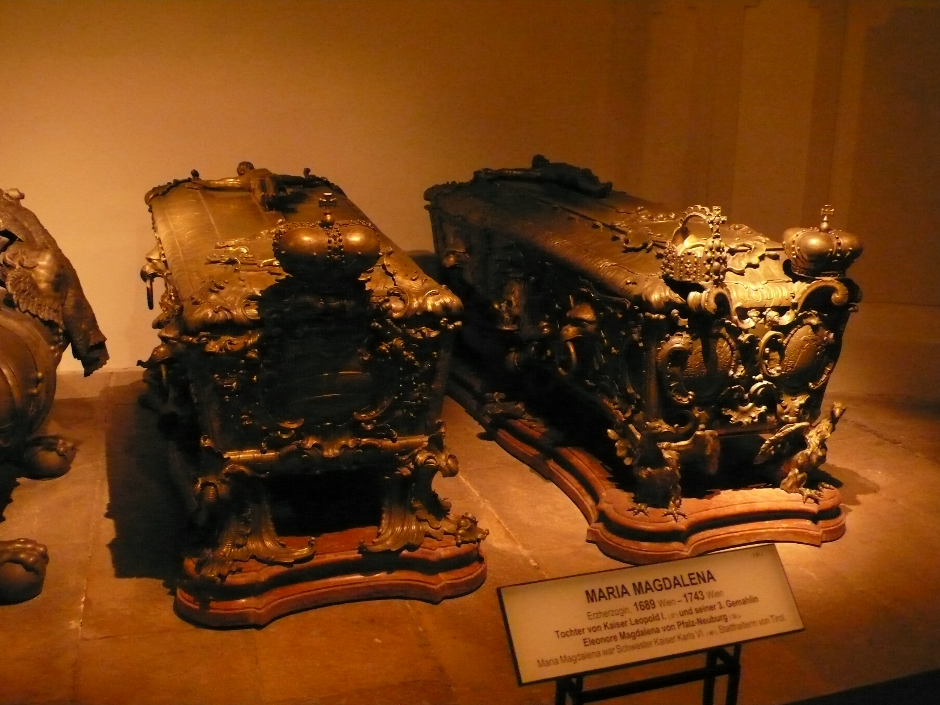 Austria, Vienna, Capuchin Church, Imperial Crypt